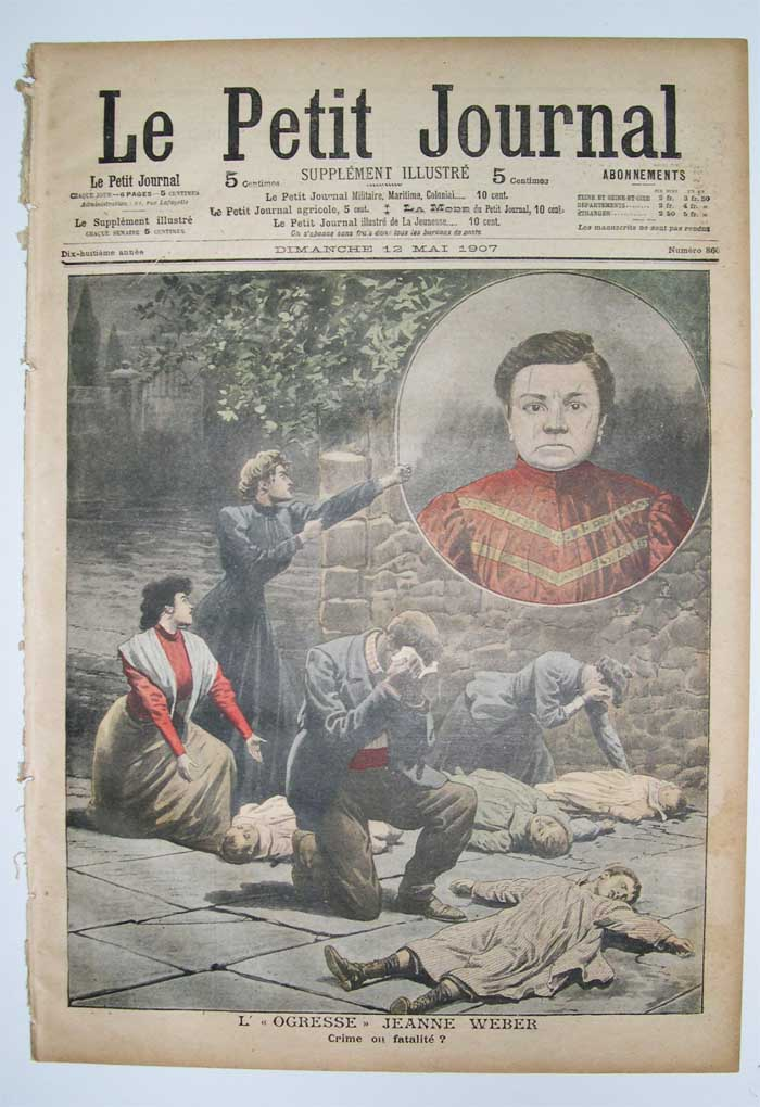 Cover of Le Petit Journal, May 12, 1907, a painting of Jeanne Weber